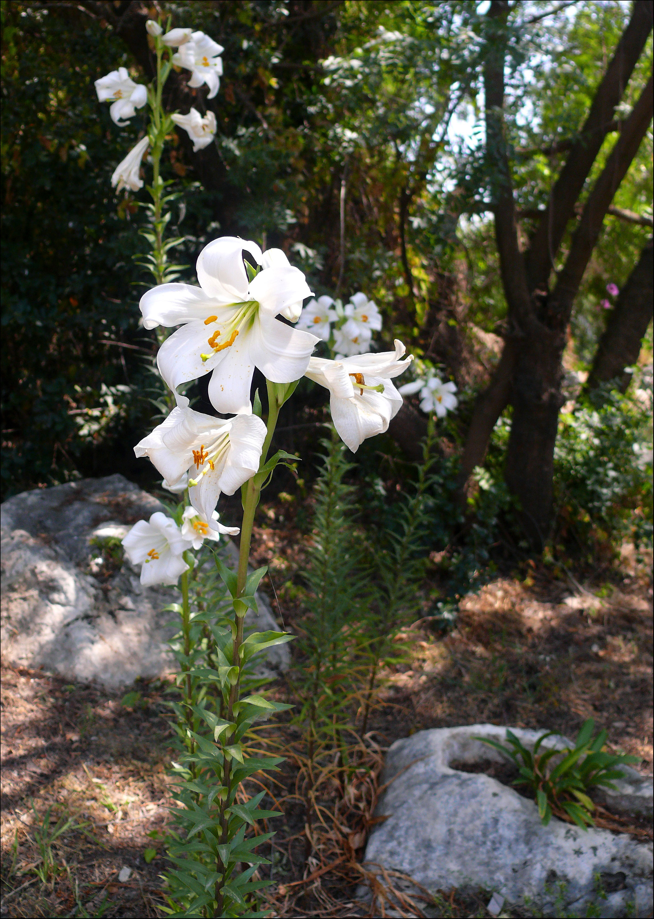 Lilium candidum, Israel